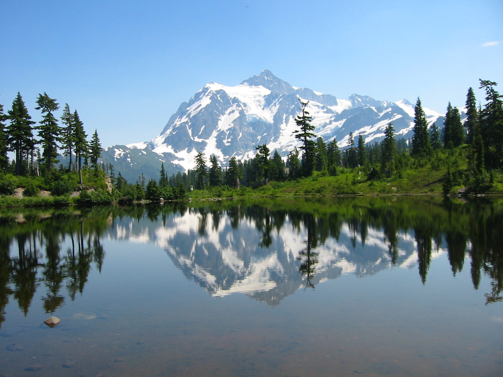 Photograph of Mount Shuksan taken from Picture Lake on Mount Baker in the North Cascades of Washington.